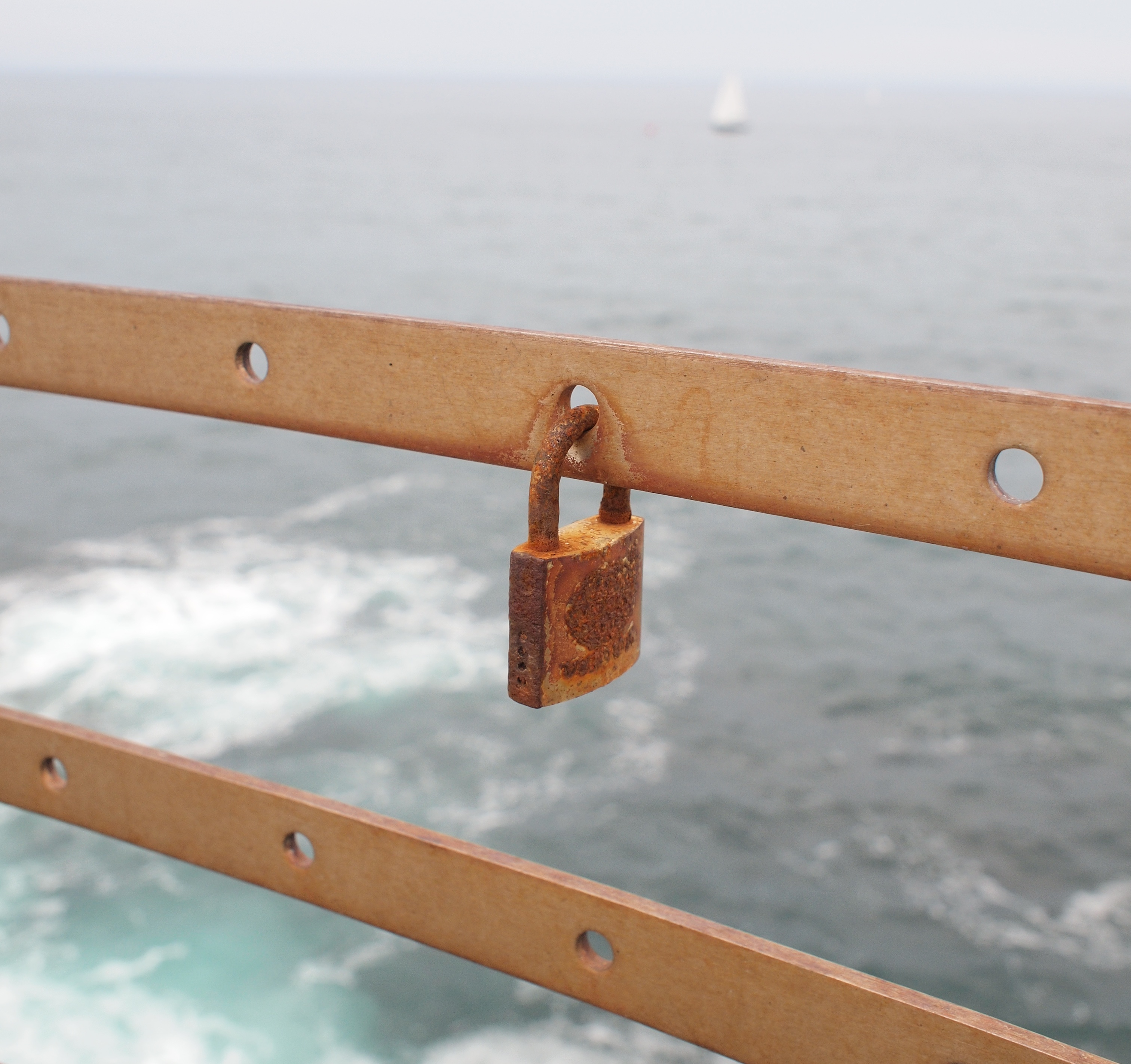 Lock at a fence in San Sebastian